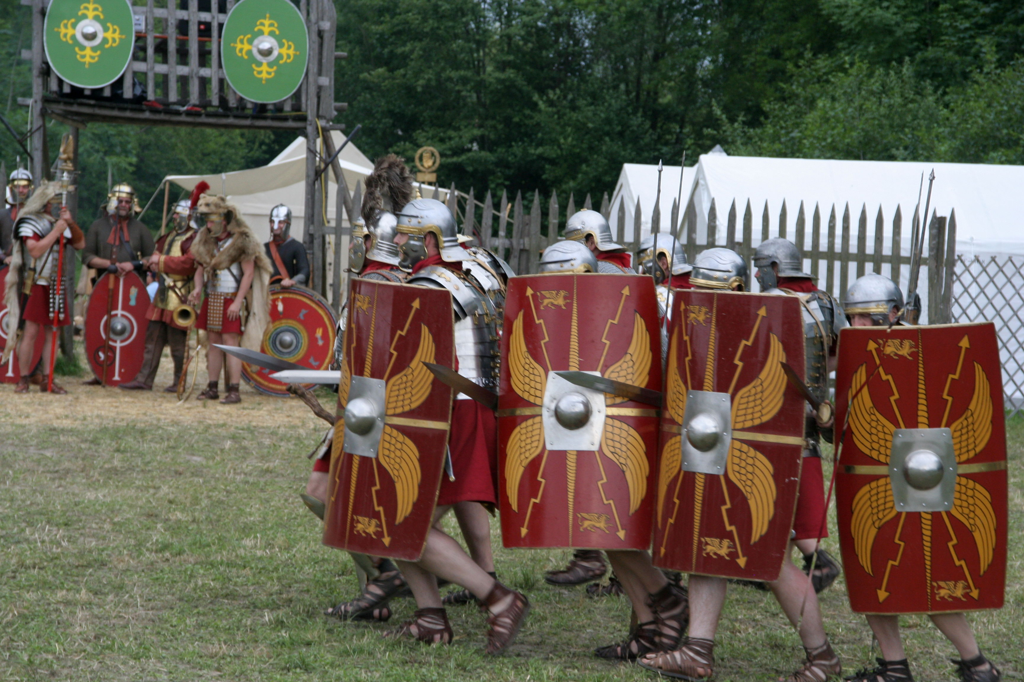 Roman legion at attack. Soldiers at 70 a.C. The background should not show a real roman camp. Photographed by myself during a show of Legio XV from Pram, Austria